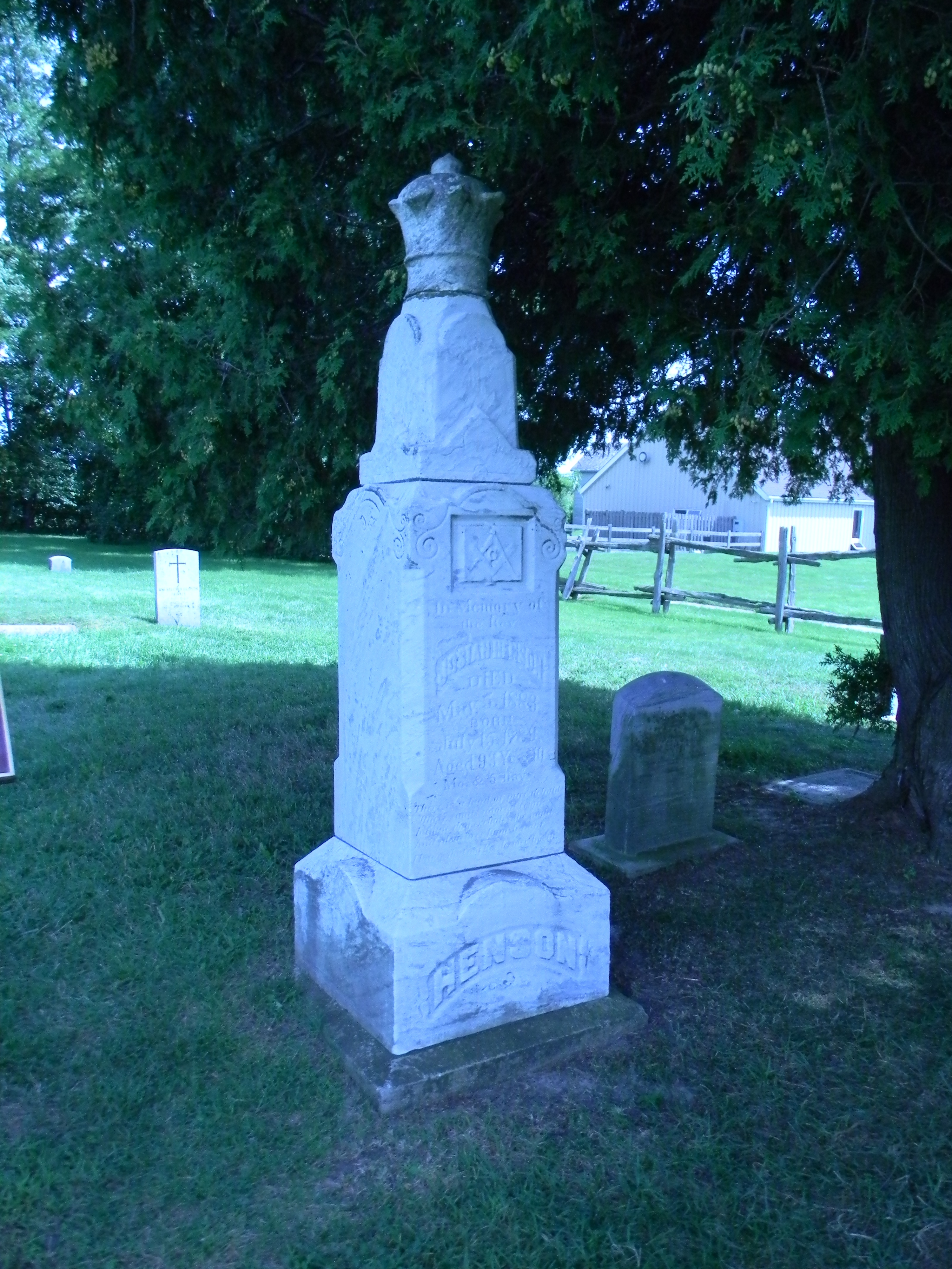 The Reverend Josiah Henson, a promenent member of the Dawn Colony in Ontario Canada, was a fromer slave. His autobiography inspired Harriet Beecher Stowe to write Uncle Tom's Cabin. Queen Victoria considered him to be such an outstanding citizen that she had his grave marker topped with a crown, an honour bestowed on few citizens.